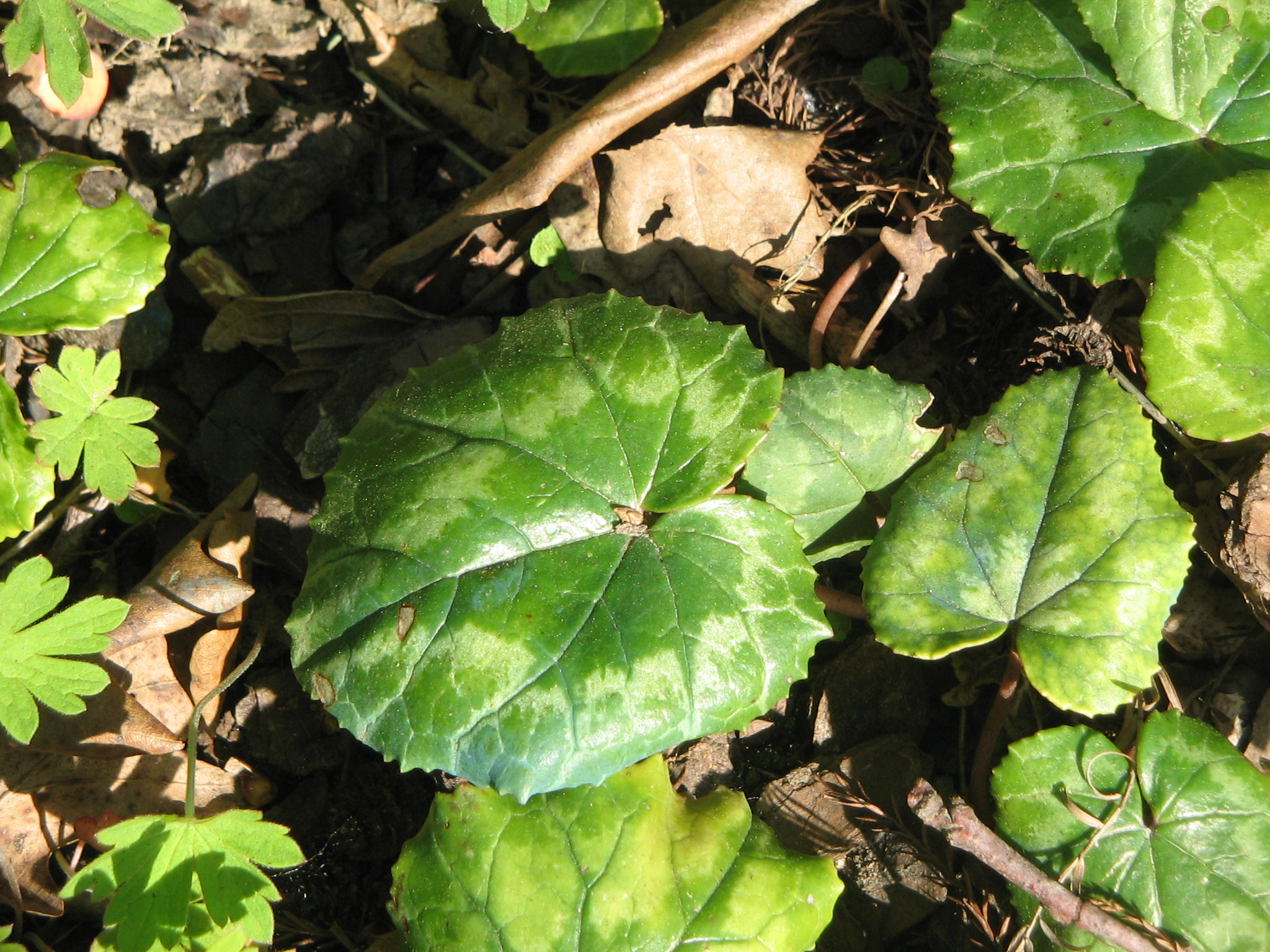 Cyclamen purpurascens leaves